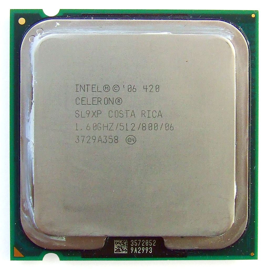 Intel Celeron 420 microprocessor, sSpec number SL9XP. Technical specifications: Socket: LGA775 Core: Single core Stepping: A1 (Conroe-L 65 nm) Clock speed: 1600 Mhz Cache: 32 KB L1 + 512 KB L2 FSB: 800 Mhz QP TDP: 35 W